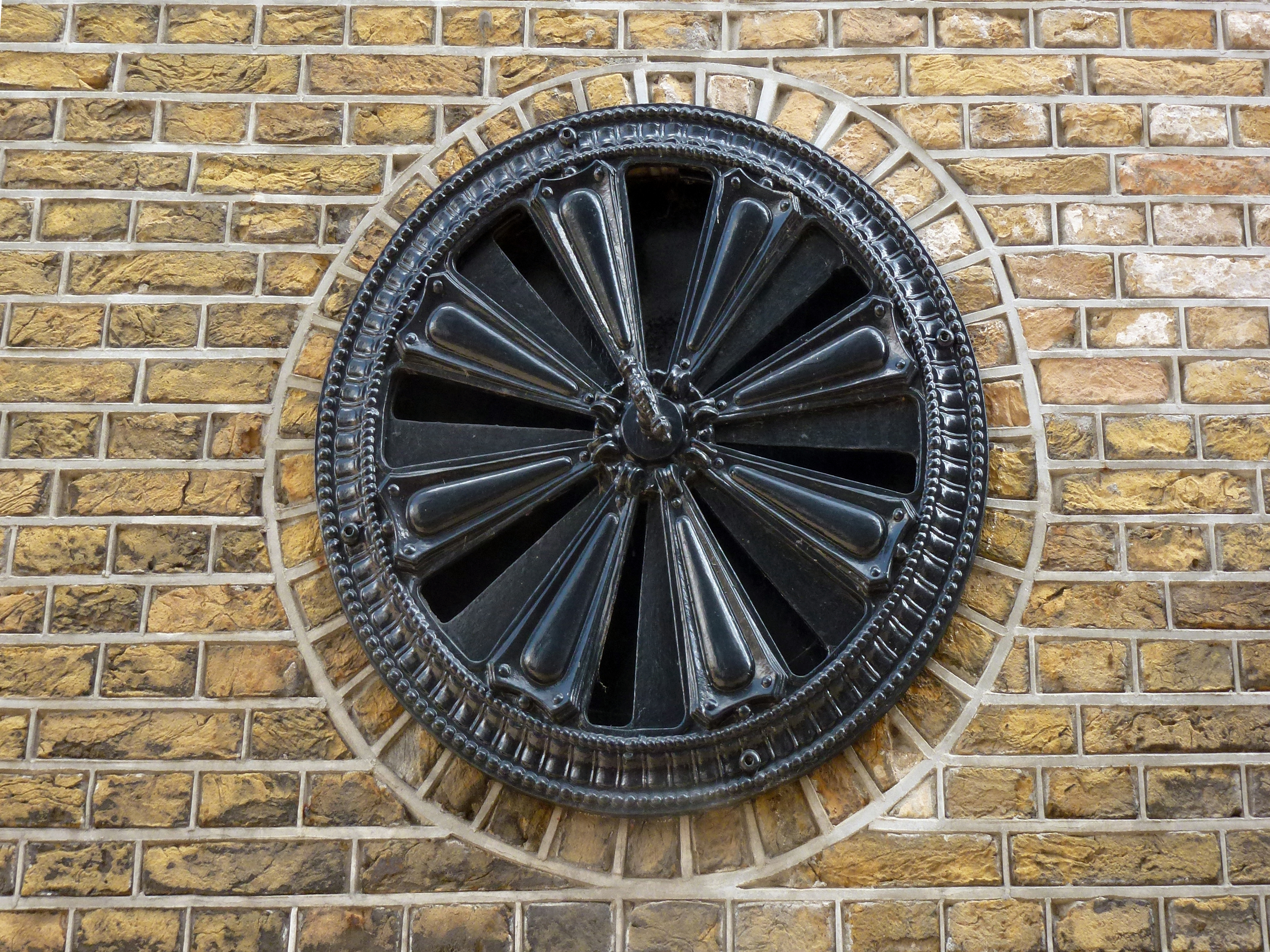 Vent or ventilation grid